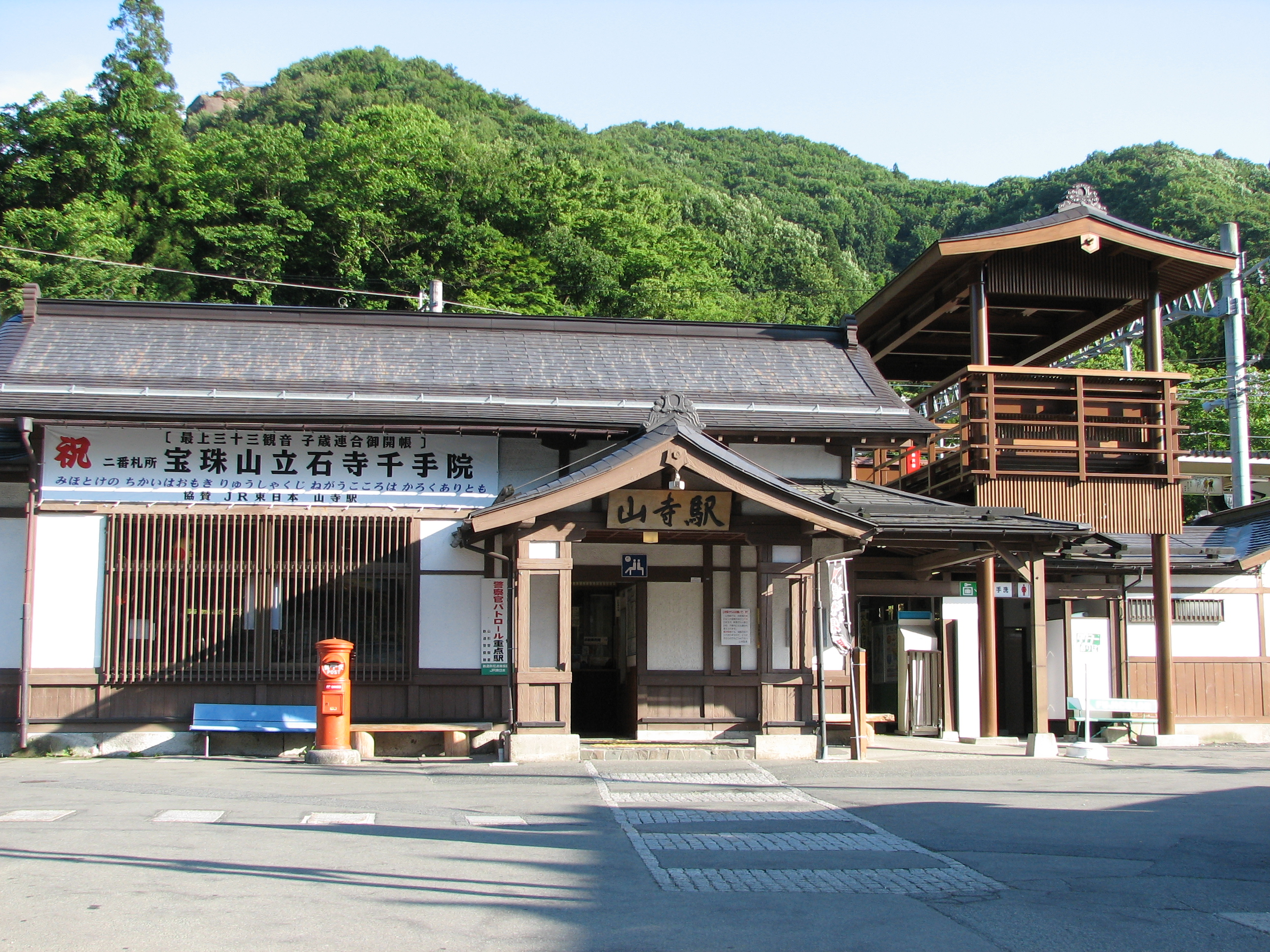 JR East Yamadera Station.